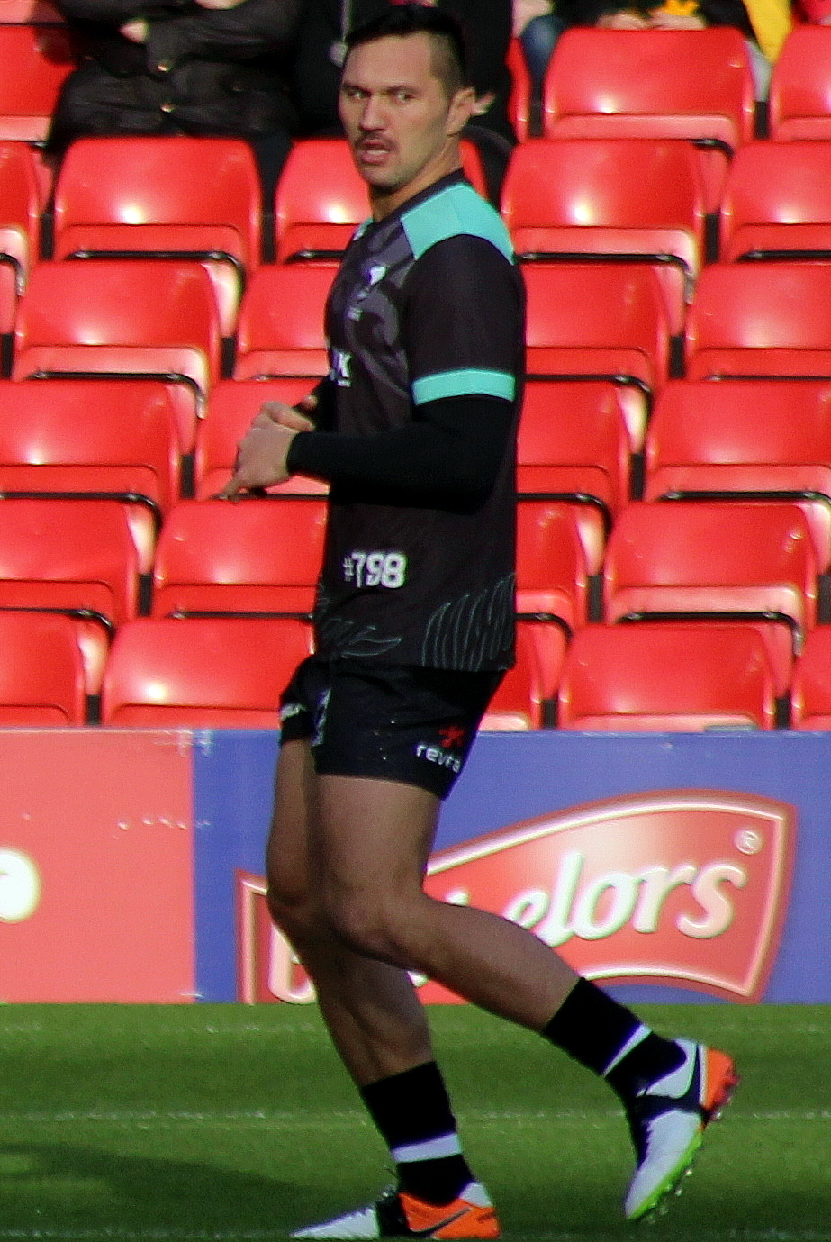 Jordan Rapana